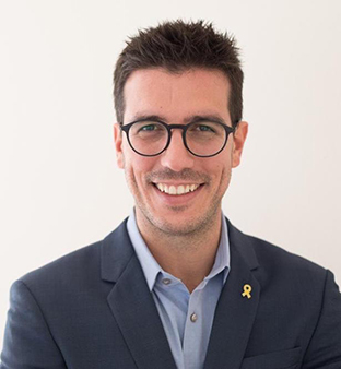 Toni Postius regidor urbanisme